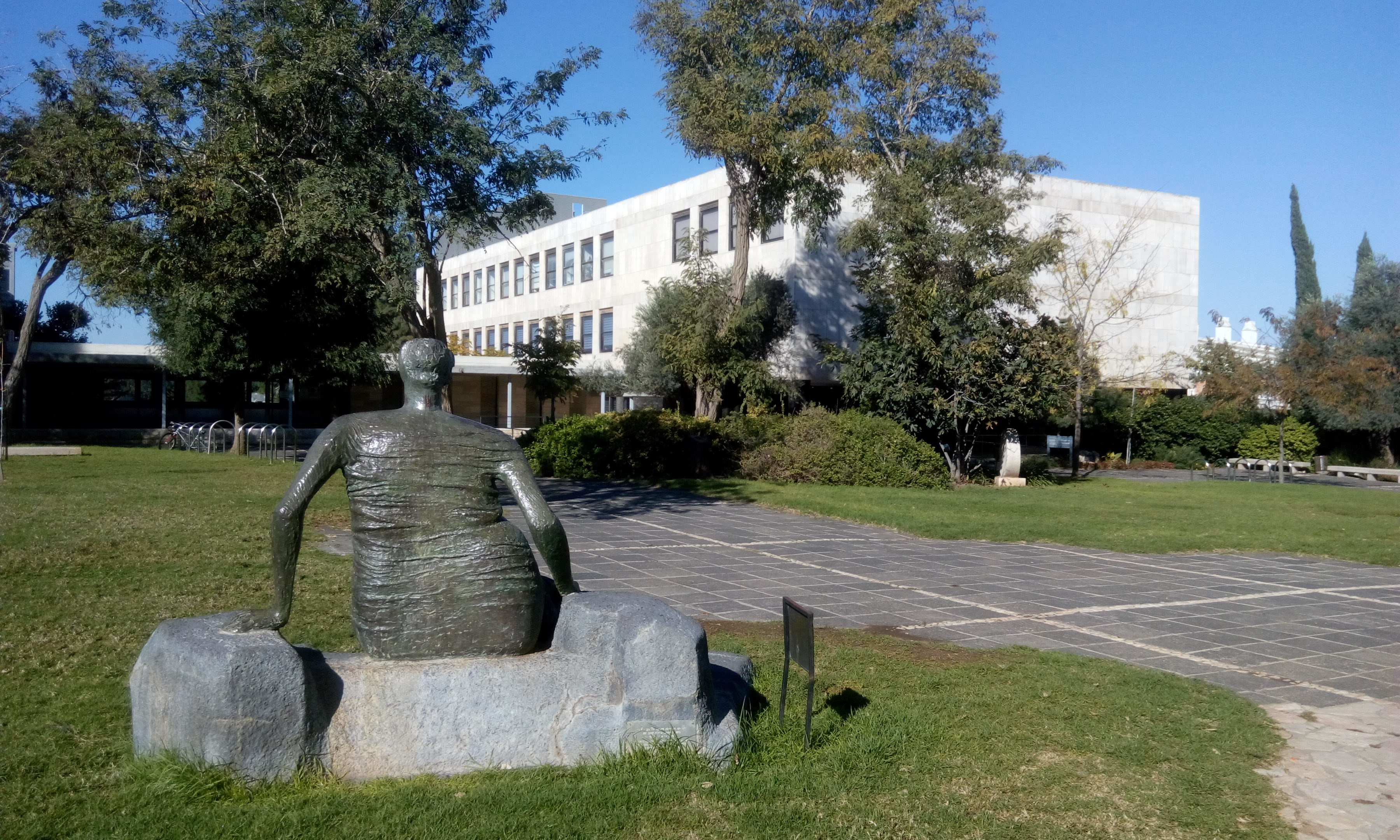 View of the building at the Hebrew University of Jerusalem, with Henry Moore sculpture in the foreground.